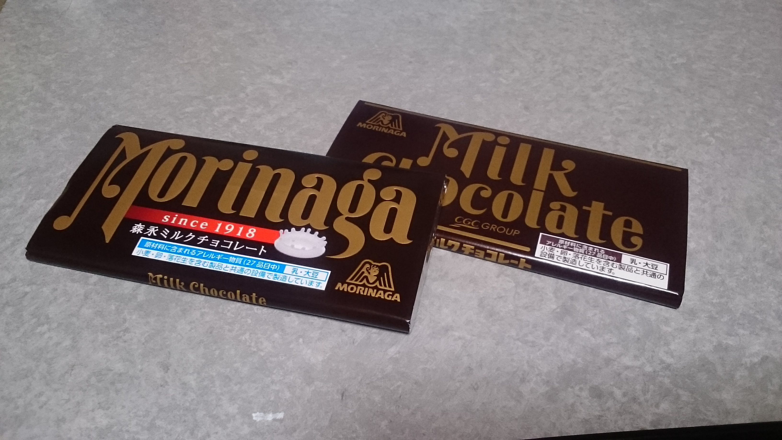 Morinaga Milk Chocolate